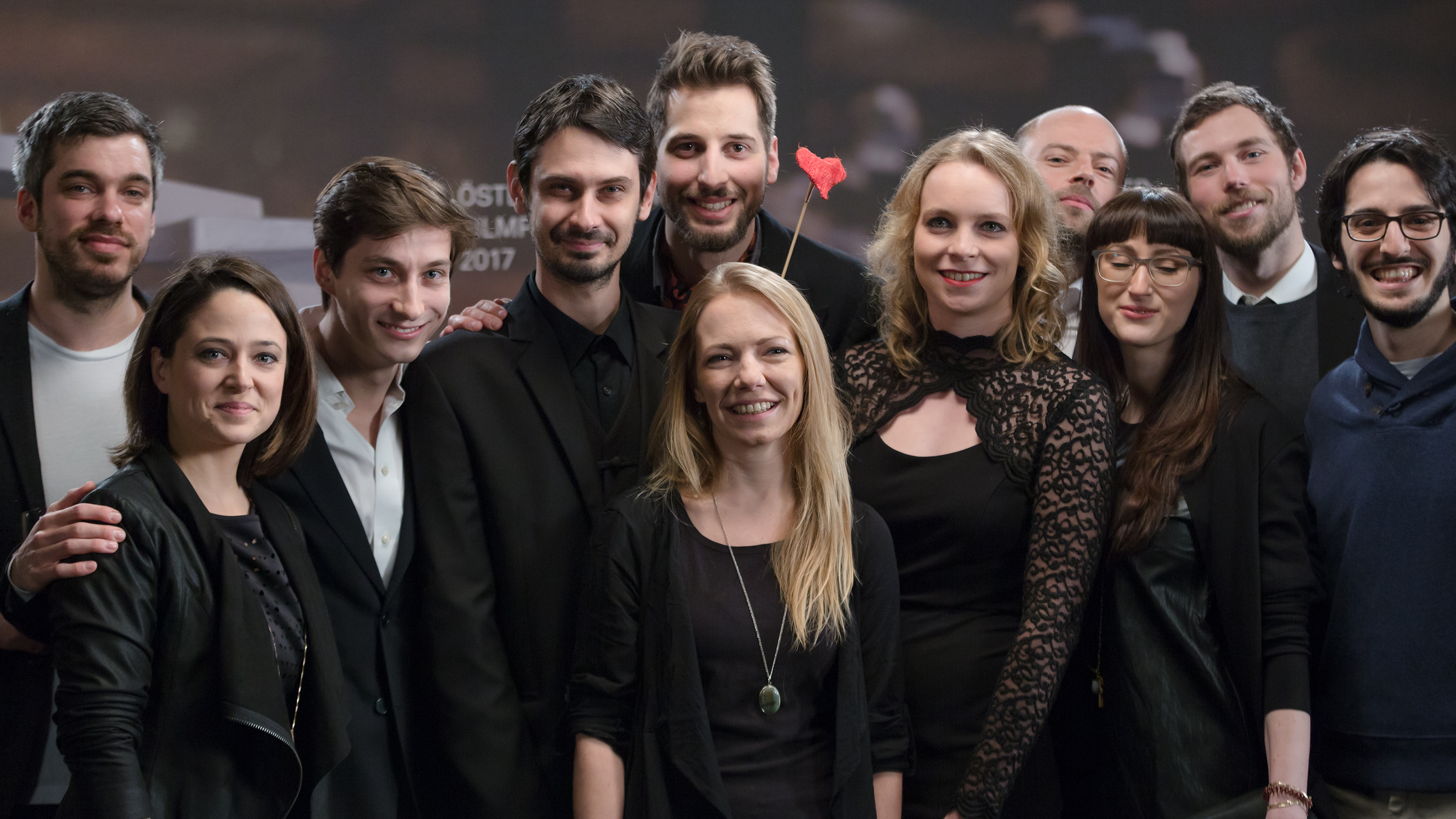 Christoph Rainer, director of Pitter Patter Goes My Heart with a part of the film team at the Austrian Film Awards 2017 (Rathaus, Vienna,Austria).